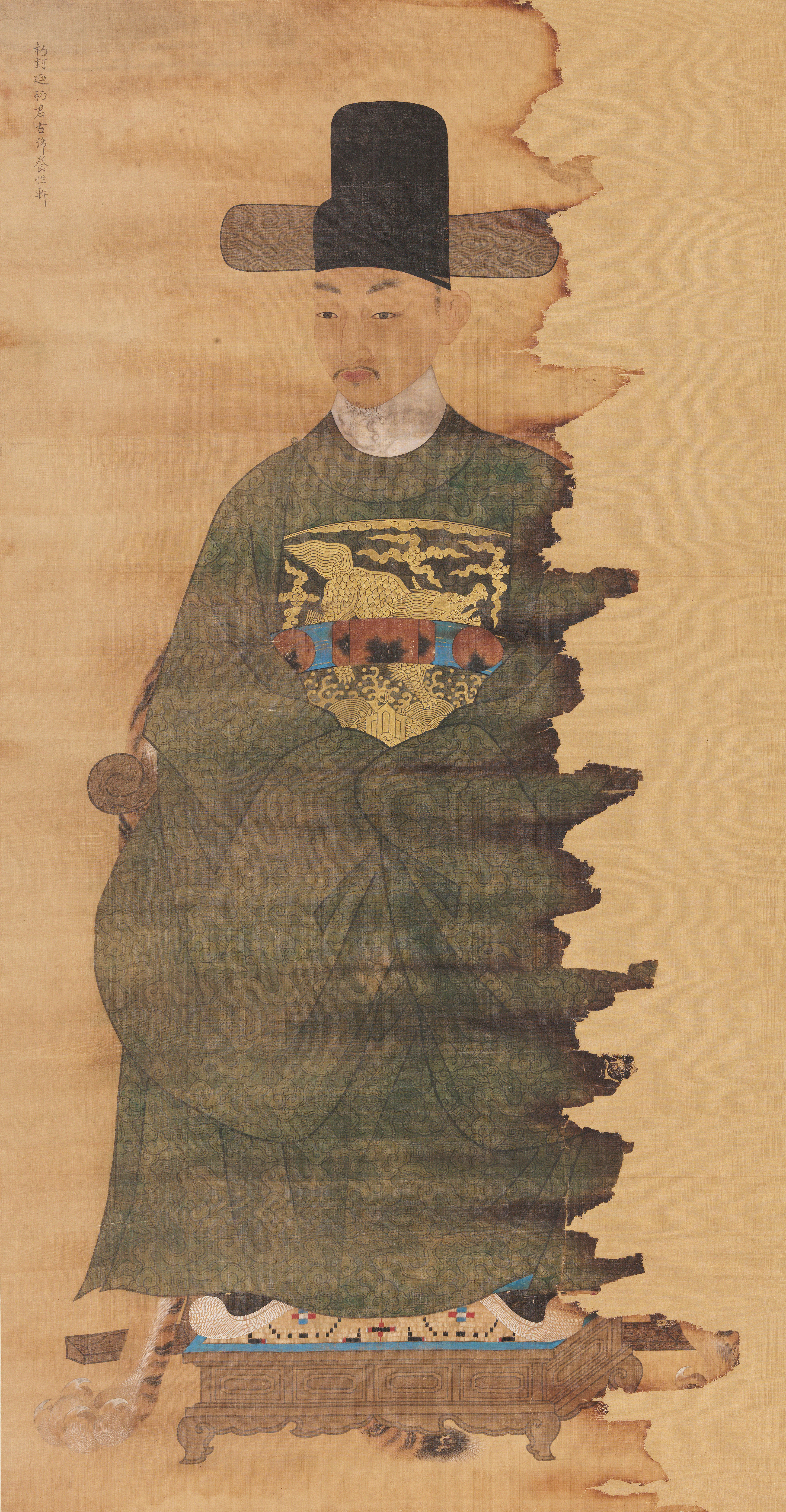 Portrait of Prince Yeoning, later King Yeongjo (r. 1724-1776); Korean Treasure 1491